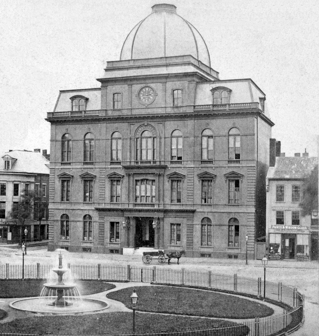 This image is available from the New York Public Library's Digital Library under the digital ID G90F315_008F